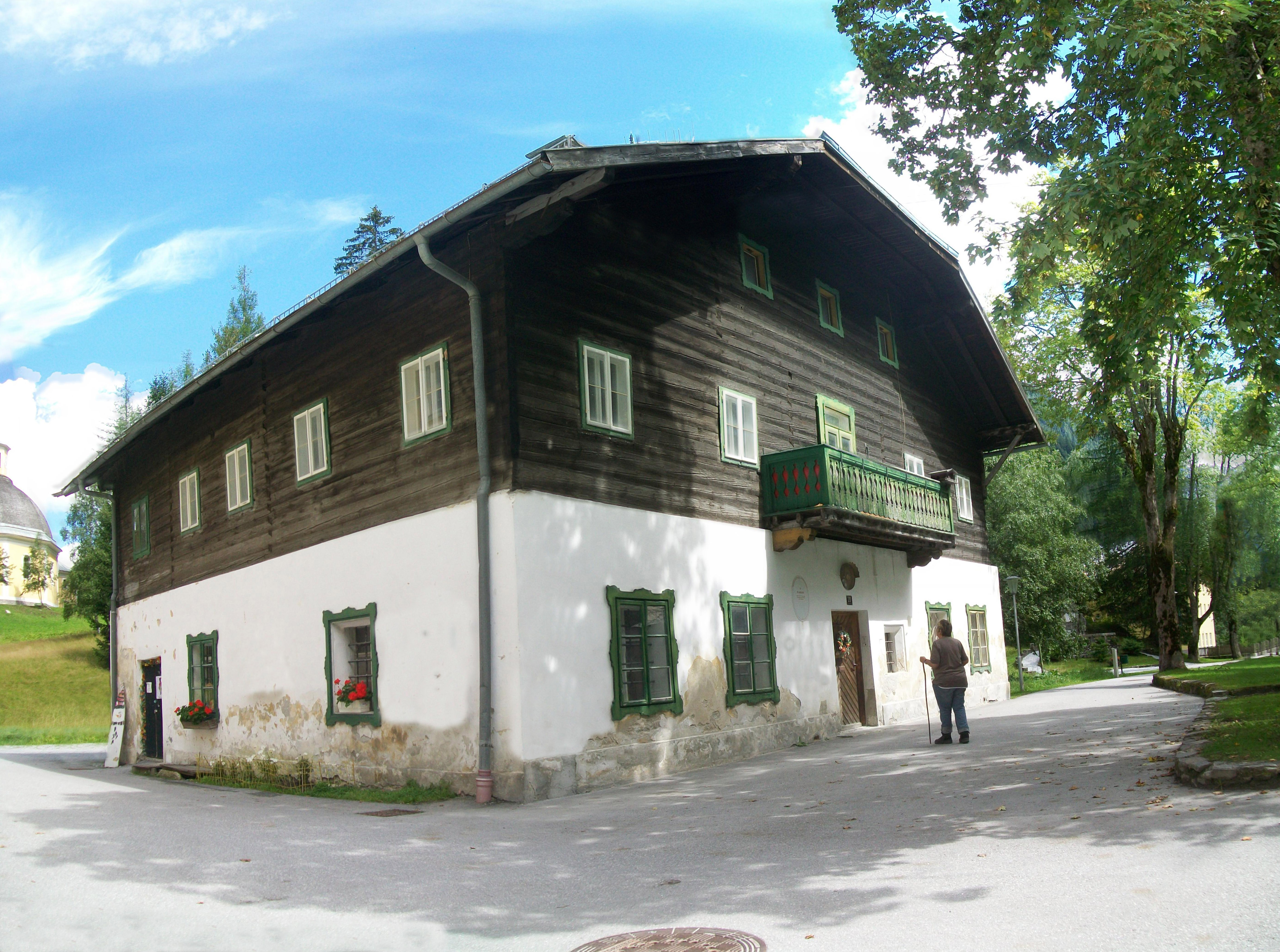 Wooden cottage in "Böckstein" village.